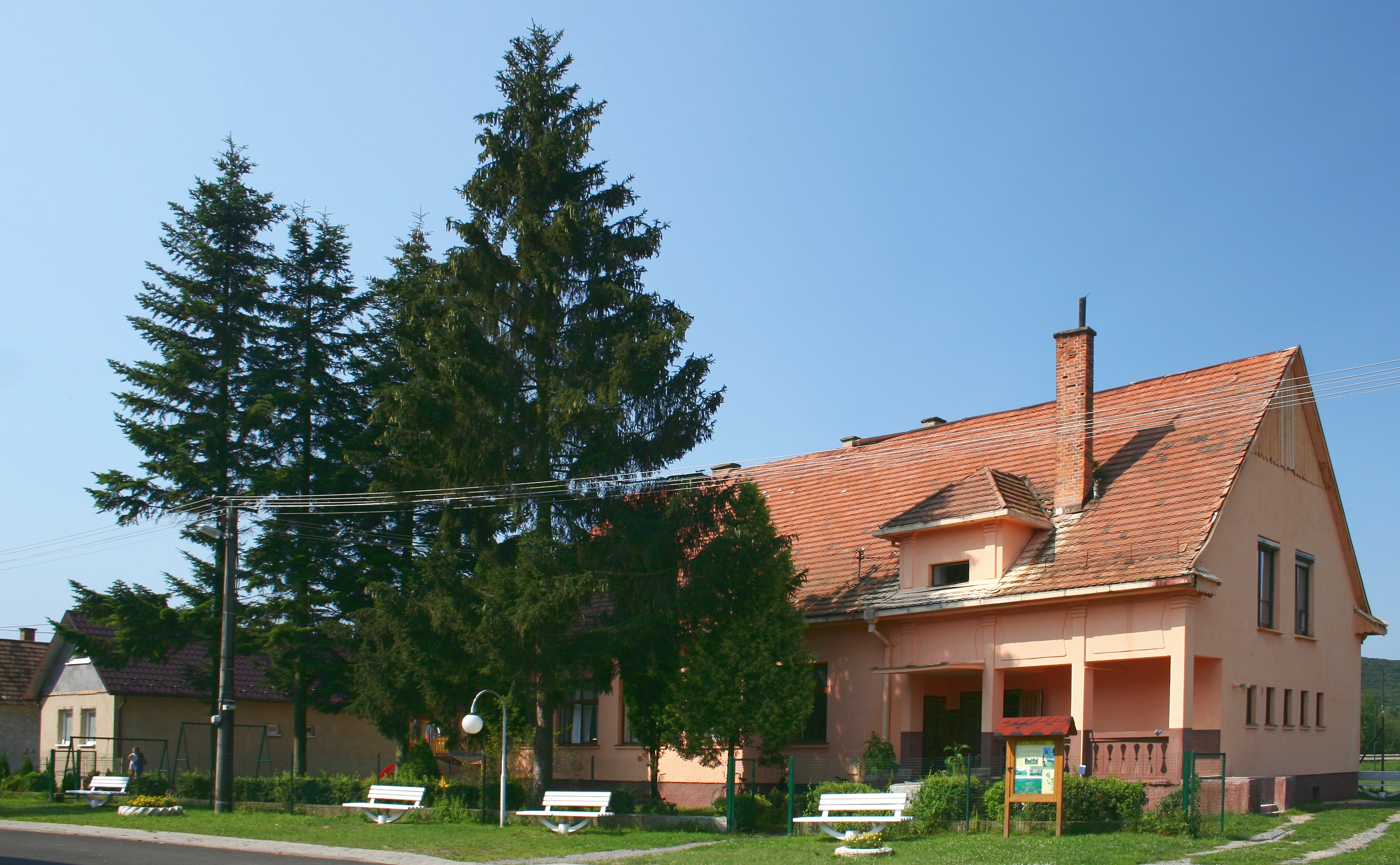 Malá Domaša, village in Slovakia